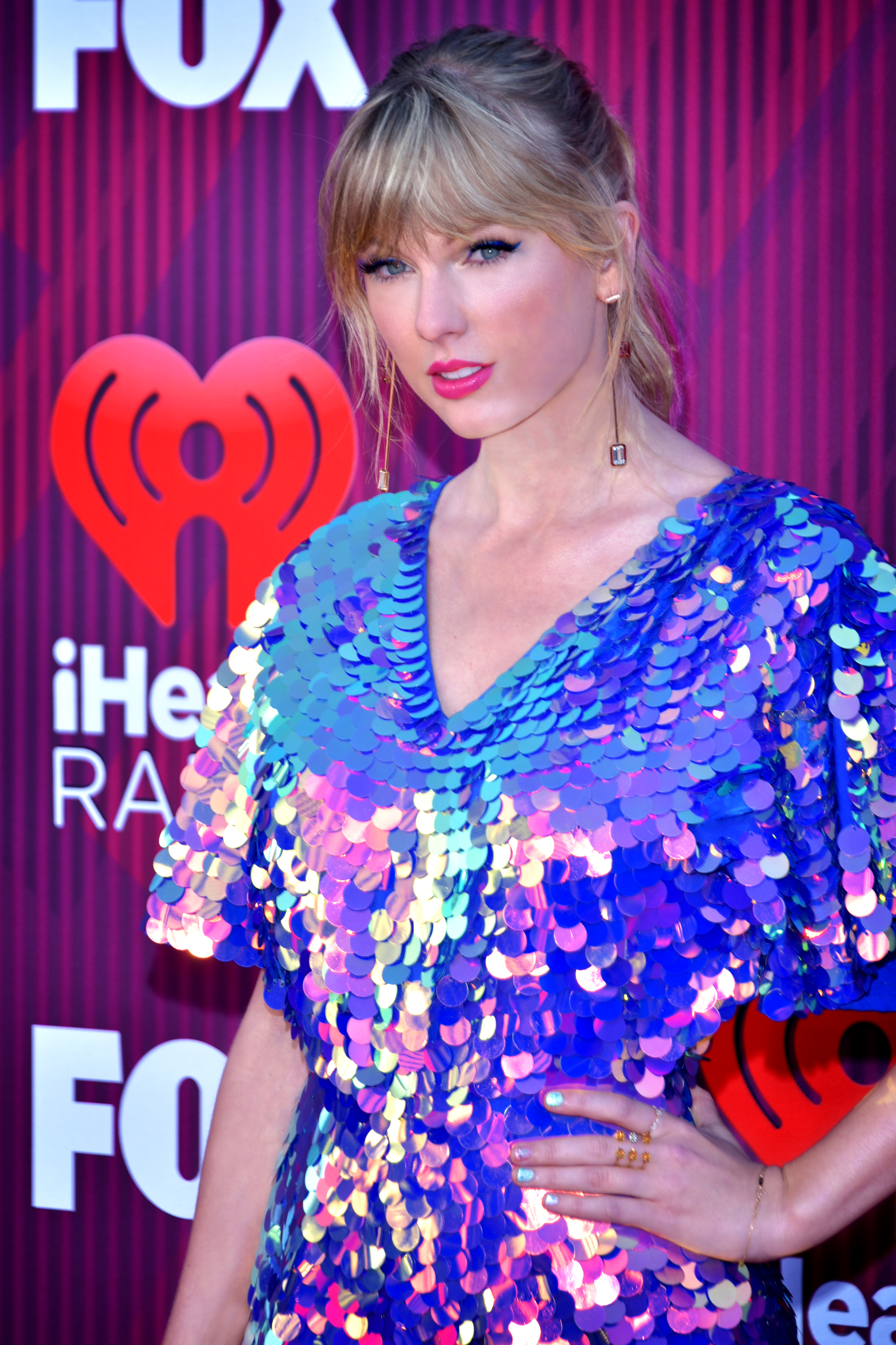 Taylor Swift at the iHeartRadio Music Awards 2019 - Photo by Glenn Francis of